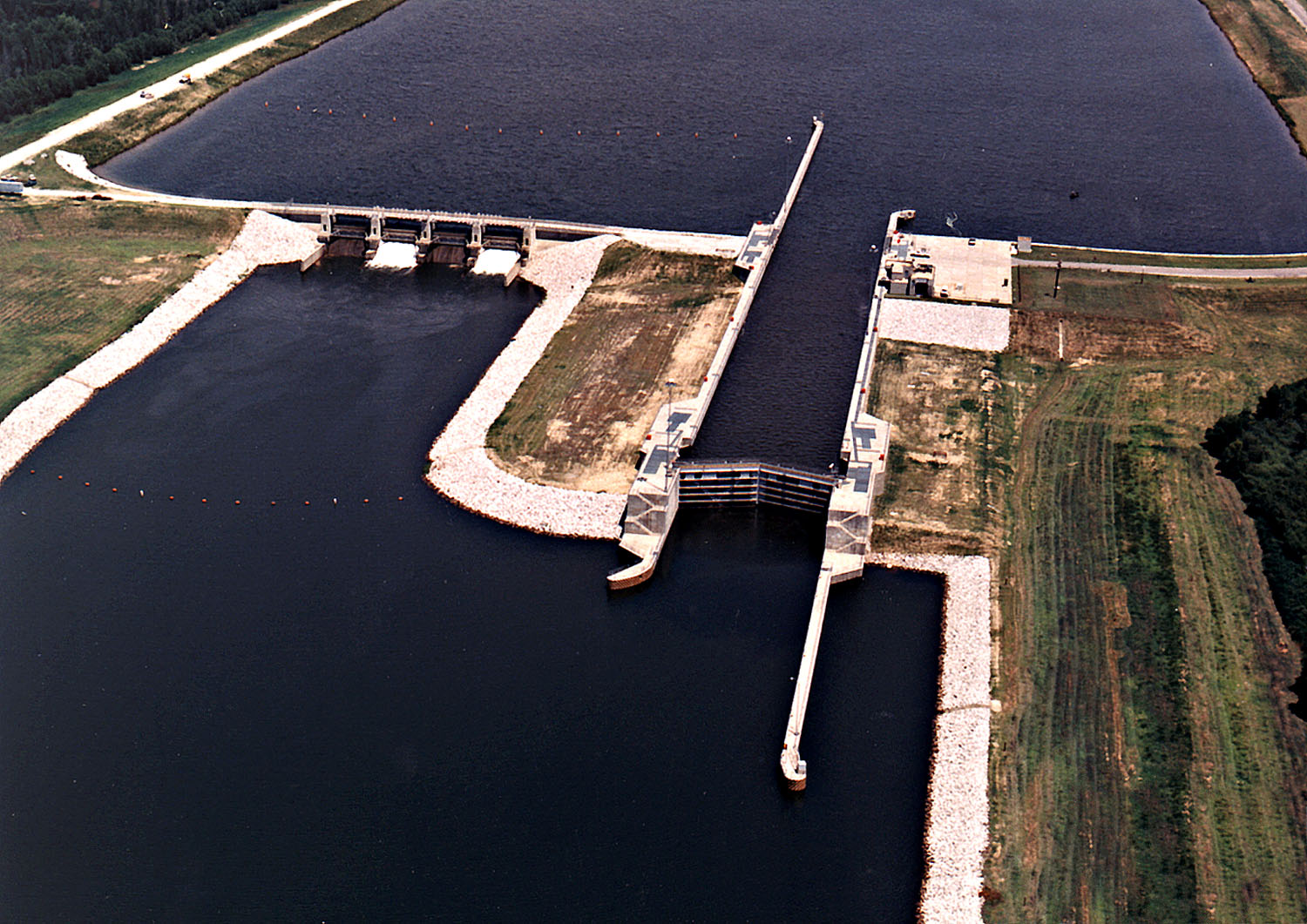 Aerial view of Fulton Lock and Dam on the Tennessee-Tombigbee Waterway at Fulton, Itawamba County, Mississippi, USA. Fulton Lock was formerly known as Lock C. The lock and dam are one of a series of ten locks and dams on the Tennessee-Tombigbee Waterway. The lock and waterway are maintained by the U.S. Army Corps of Engineers for navigation between the Tennessee River and the Gulf of Mexico. View is upriver to the northwest. Coordinates: 34°15′28.09″N 88°25′29.33″W / 34.2578028°N 88.4248139°W